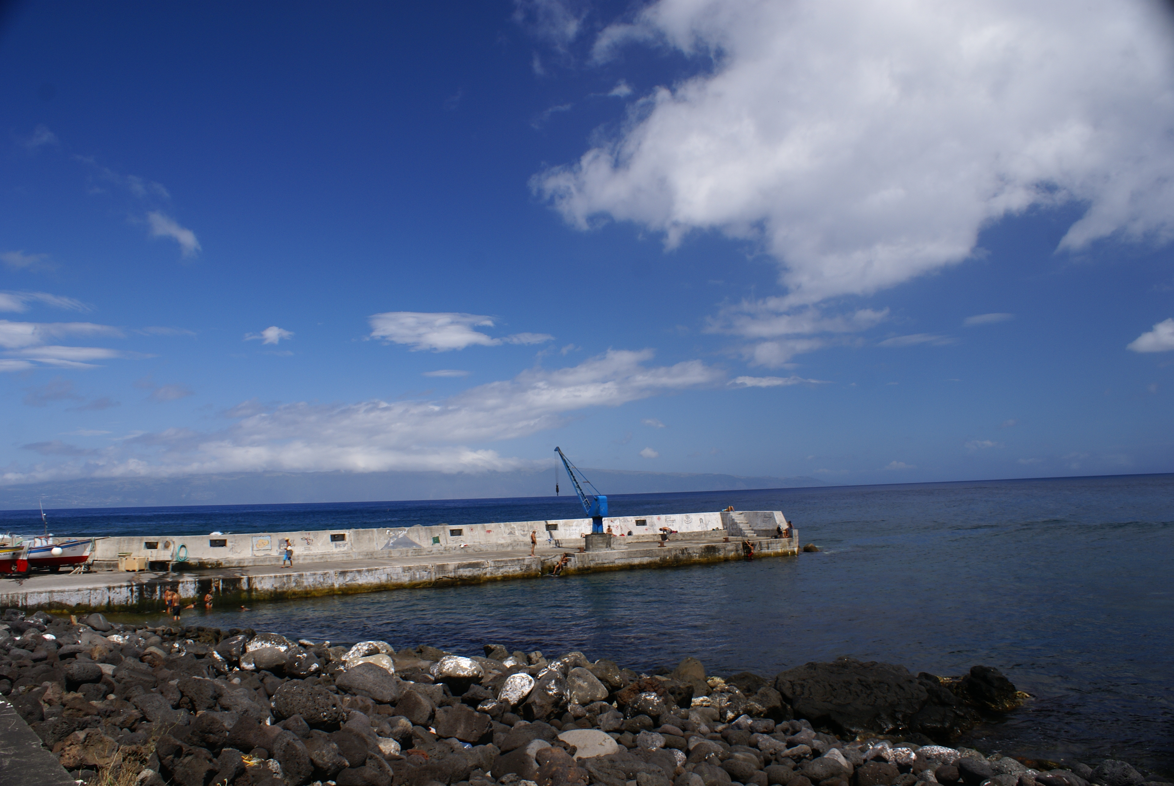 Porto Piscatório do Calhau, Piedade, concelho das Lajes do Pico, ilha do Pico, Açores